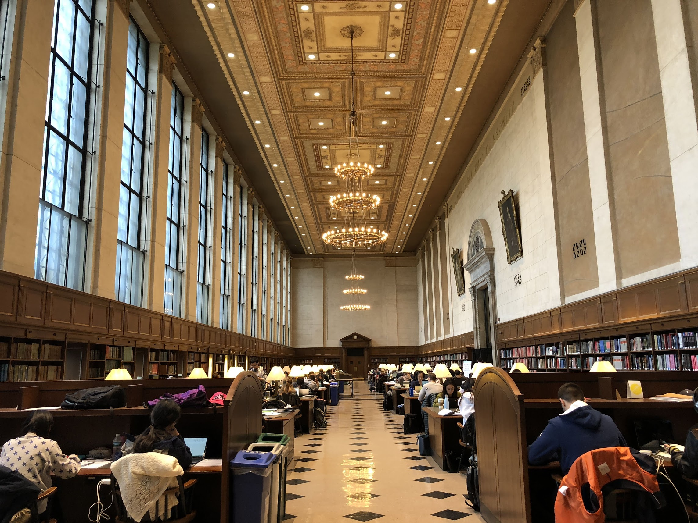 Main reading room at Butler Library, Columbia University.